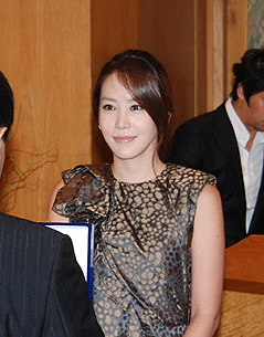 Kim Jung-eun (South Korean actress, born 1976) in July 2009